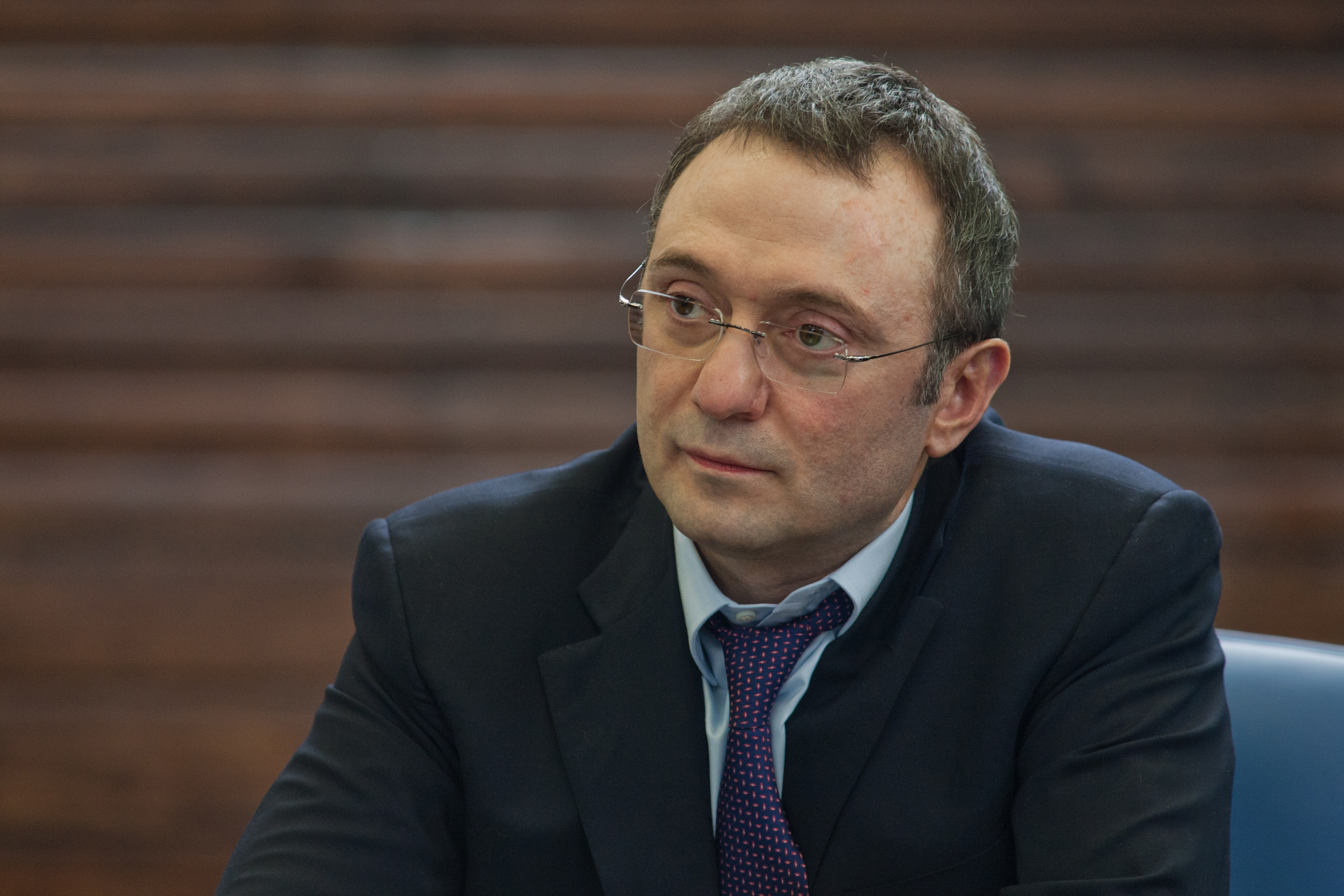 Suleyman Kerimov at XIV St. Petersburg International Economic Forum